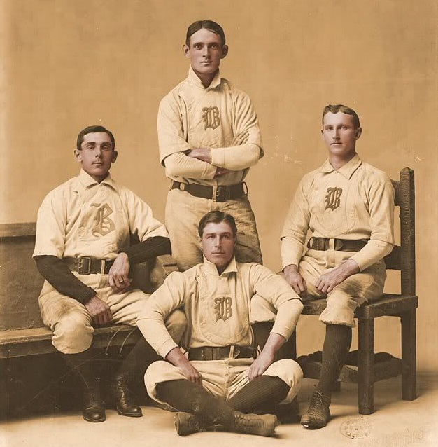 Photograph of the Boston Beaneaters infield, 1900. Top: Fred Tenney (1B), Right: Herman Long (SS), Bottom: Jimmy Collins (3B) and Left: Bobby Lowe (2B).